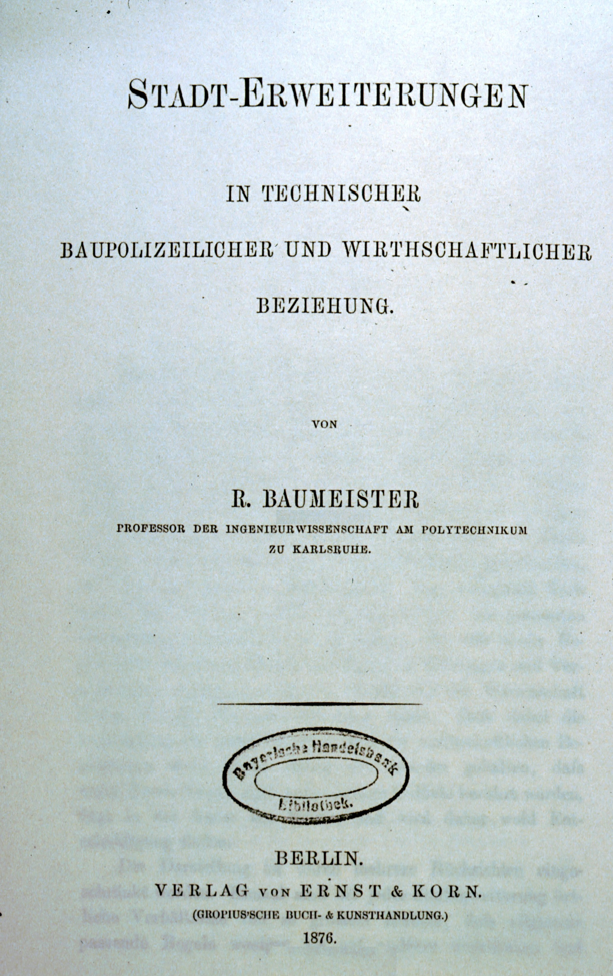 Reinhard Baumeister: Stadt:Erweiterungen in technischer, baupolizeilicher und wirthschaftlicher Beziehung. Berlin 1876